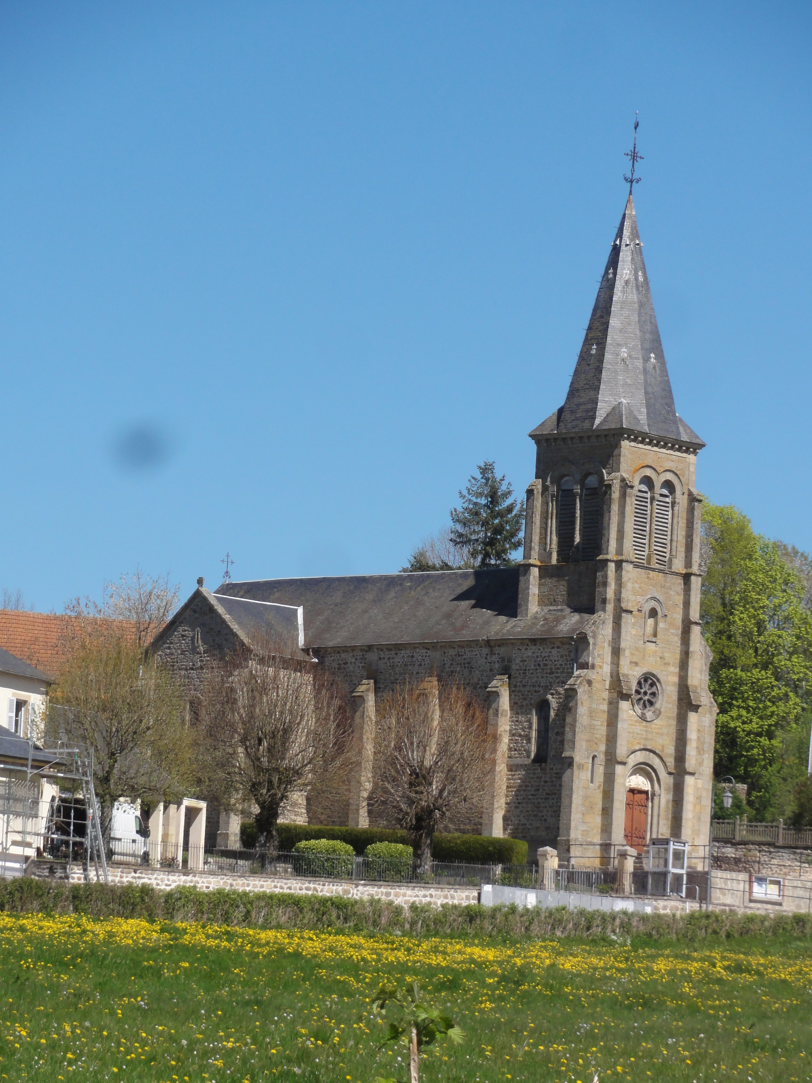 La Cellette (Puy-de-Dôme) église